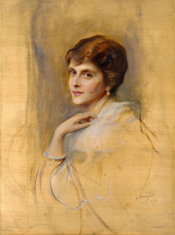 Portrait of Princess Andrew of Greece